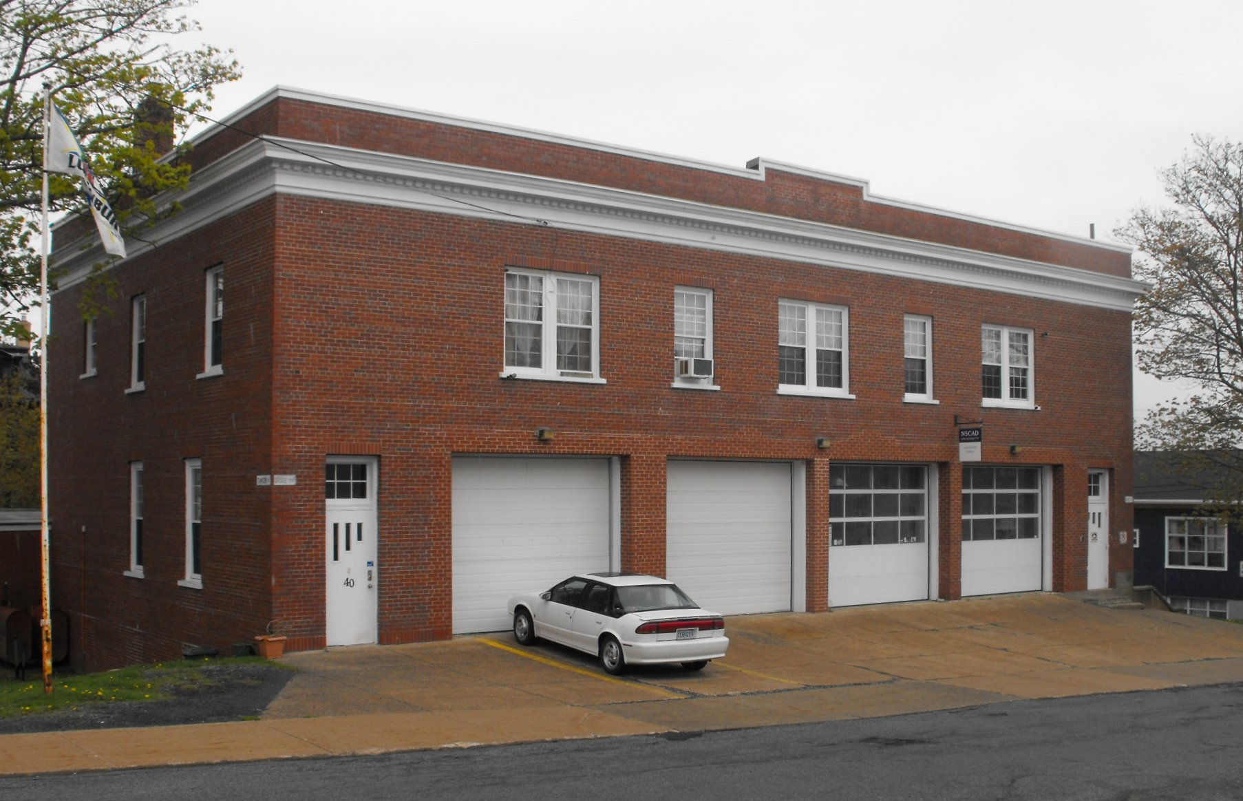 View of the Lunenburg Campus of NSCAD University. The building is a converted fire station.